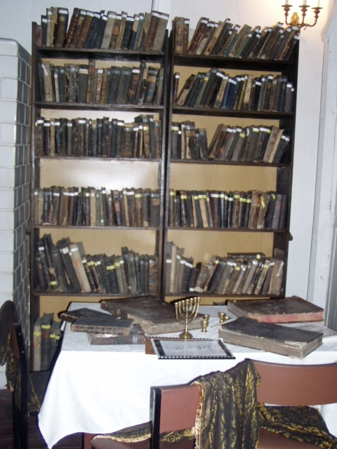 Chewra Nosim Synagogue in Lublin